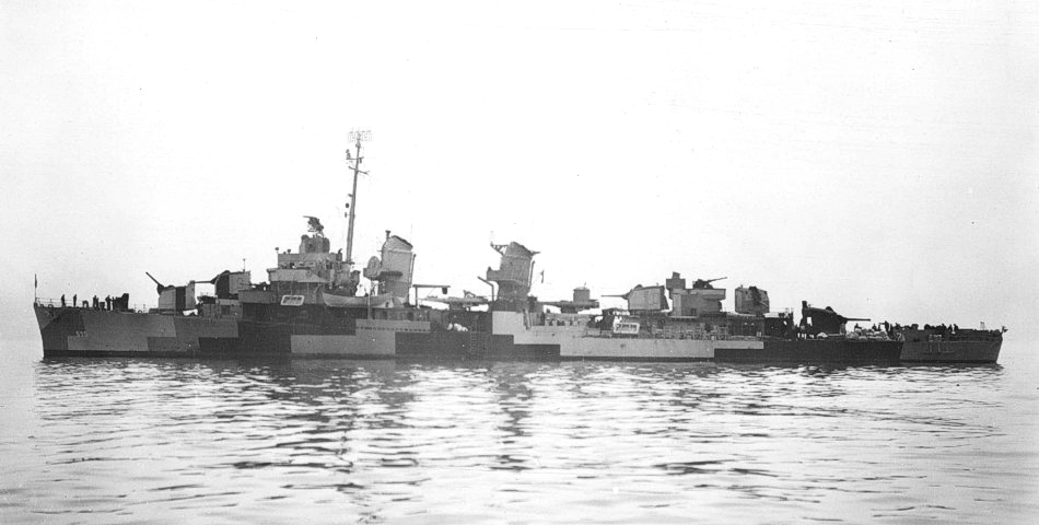 The U.S. Navy destroyer USS Metcalf (DD-595) in Puget Sound, Washington (USA), 16 December 1944. Metcalf was laid down by Puget Sound Navy Yard, Bremerton, Washington (USA), 10 August 1943; launched 25 September 1944 and commissioned 18 November 1944, Commander David L. Martineau in command. She was the third last Fletcher-class destroyer to be commissioned.